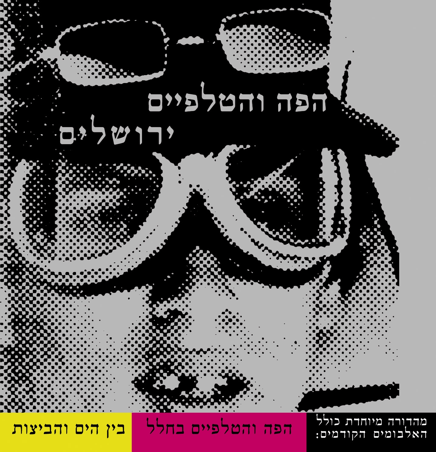 The Mouth and Foot, "Jerusalem", 2001